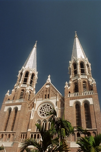 This photo of St Mary's Cathedral, Yangon, Myanmar